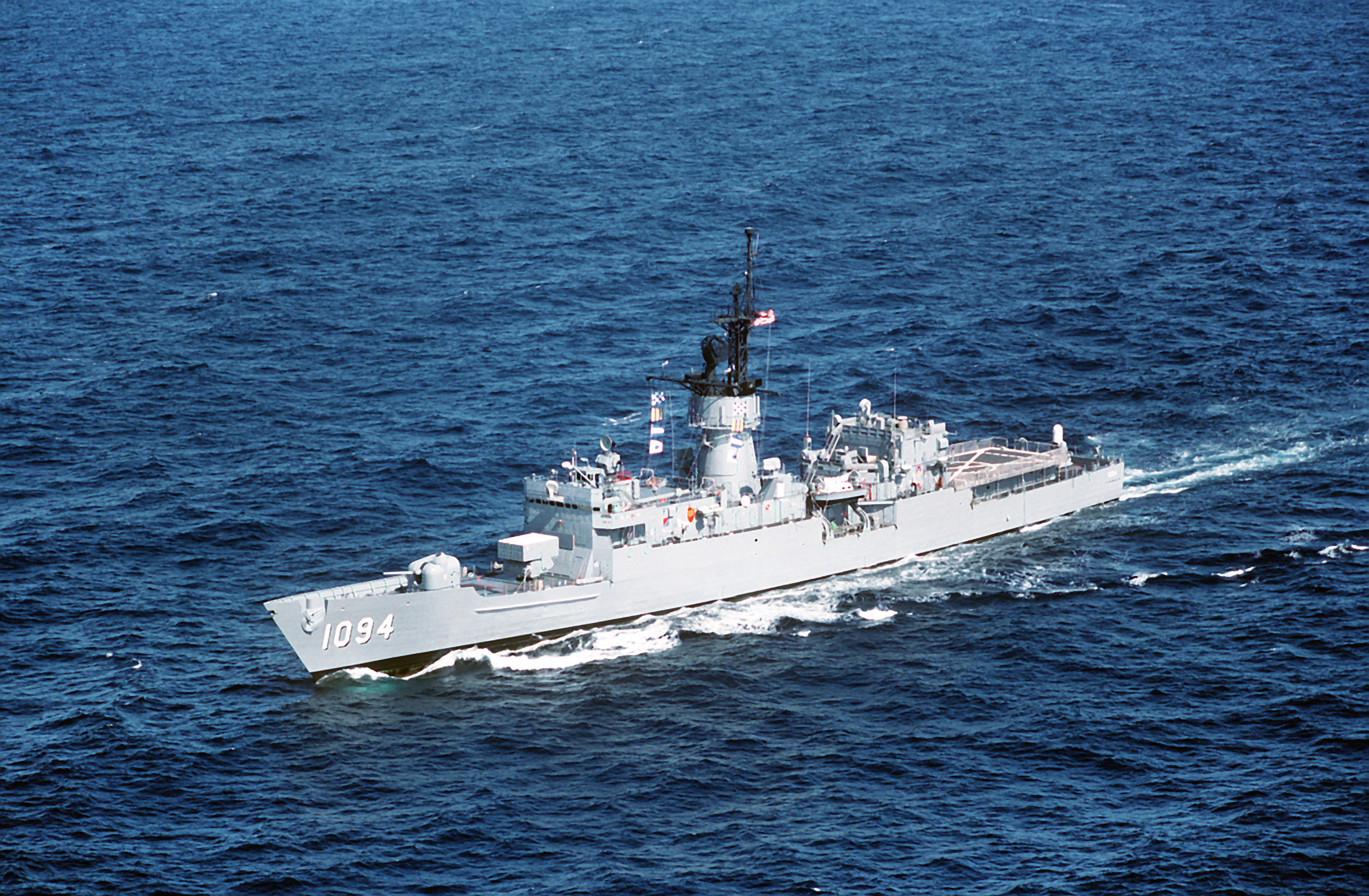 A port bow view of the frigate USS PHARRIS (FF-1094) underway during Fleet Week New York 1989